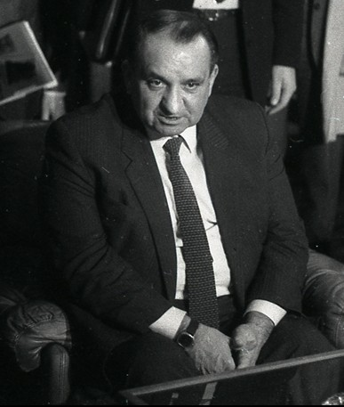 Fred Sinowatz (cropped from original)